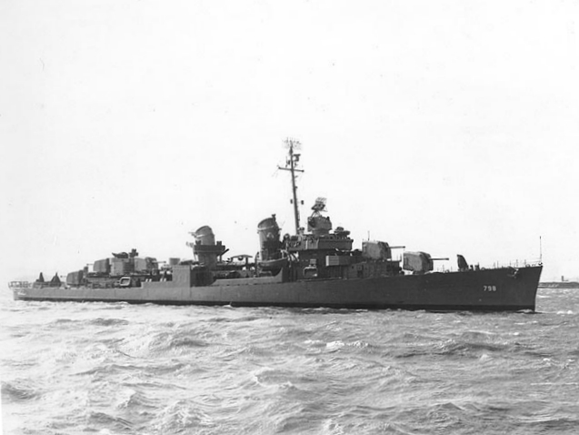 The U.S. Navy destroyer USS Monssen (DD-798) off Staten Island, New York (USA), upon completion of construction by the Bethlehem Steel Company's Staten Island Shipyard, 12 February 1944.